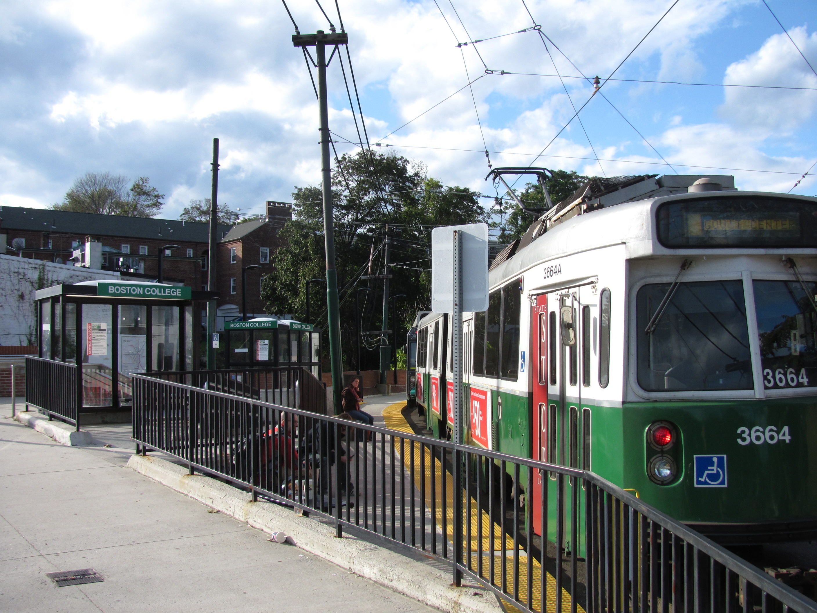 Boston College MBTA station, Brighton Massachusetts